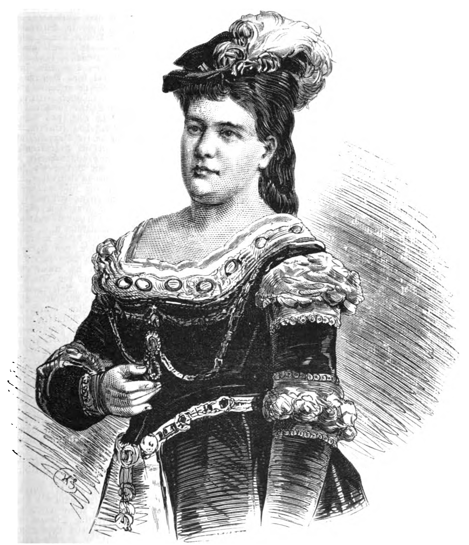 Marie Wilt (also Maria Vilda and Marie Liebenthaler) (1833-1891), Austrian dramatic coloratura soprano